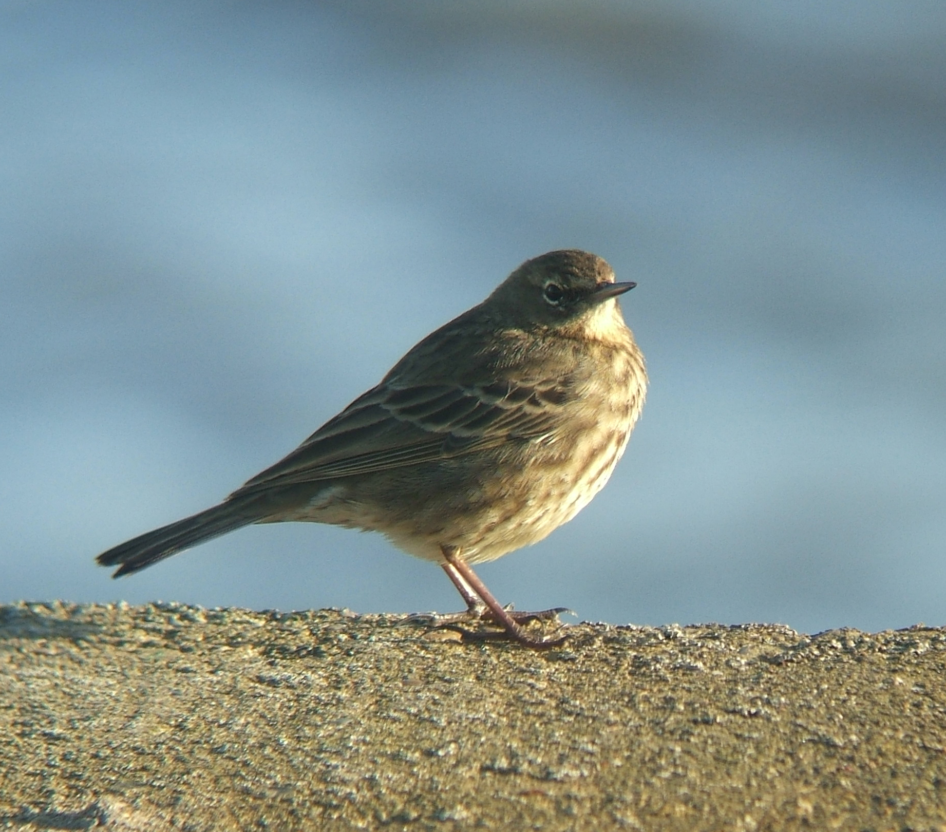 Anthus petrosus, St Mary's Island, Northumberland, UK.